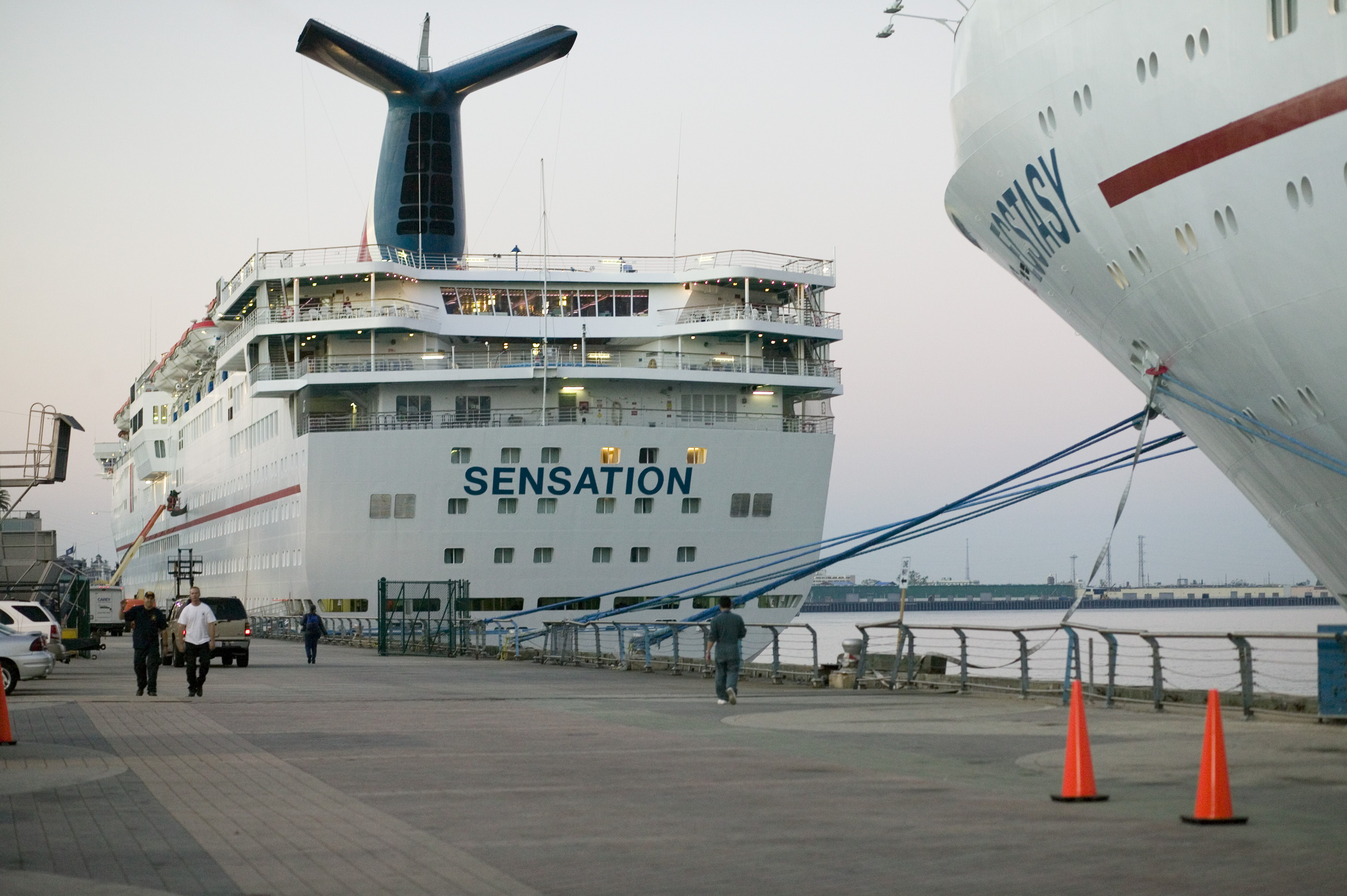 New Orleans,LA.,9/18/2005--Cruise ships, The Ecstacy and The Sensation, docked in the New Orleans port with the city of New Orleans in the background at dusk. Thousands of Hurricane Katrina survivors and response workers stayed on these cruise ships due to lack of housing in and around New Orleans. FEMA photo/Andrea Booher